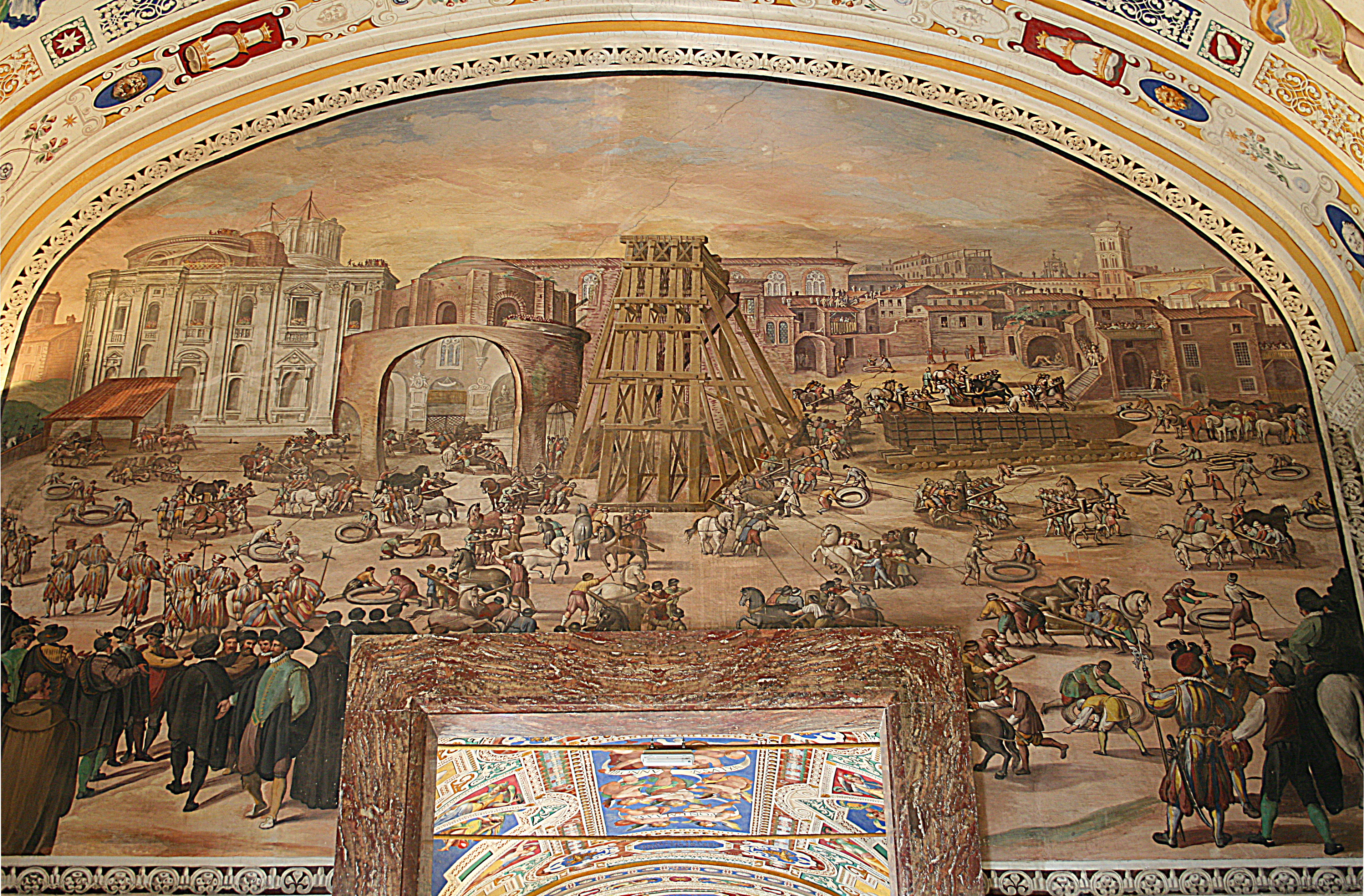 Sale Sistine II adorned with a mural fresco depicting the erection of the obelisk at Saint Peter's Square - Hall of Papal Archives - Domenico Fontana.